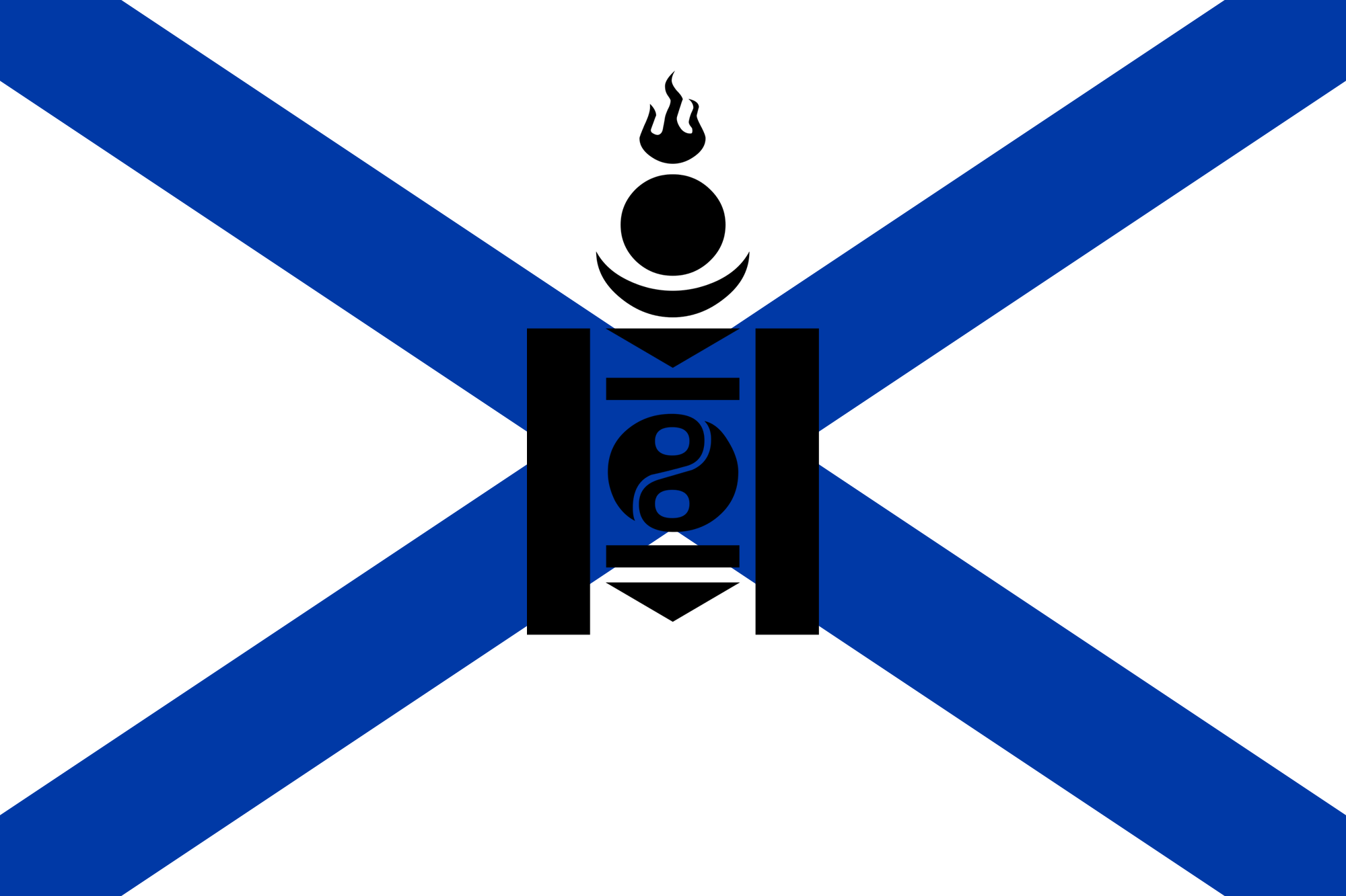 Flag of Soyombo Revival Society